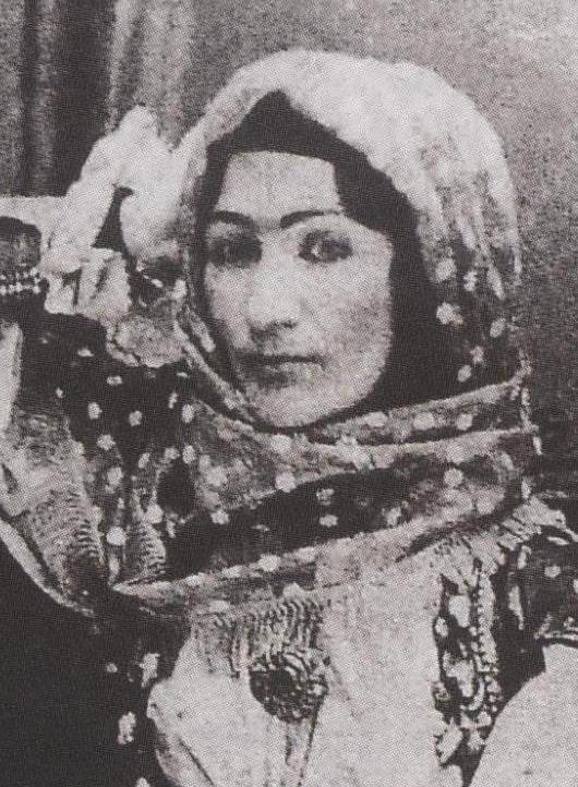 Khurshud Banu Natavan, 19th century Azerbaijani poetess